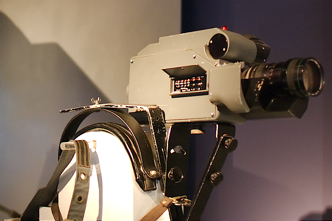 Ikegami Electronics Handy-Looky HL-33 ENG, a 1973 television camera. The system comprised the camera unit and a backpack.